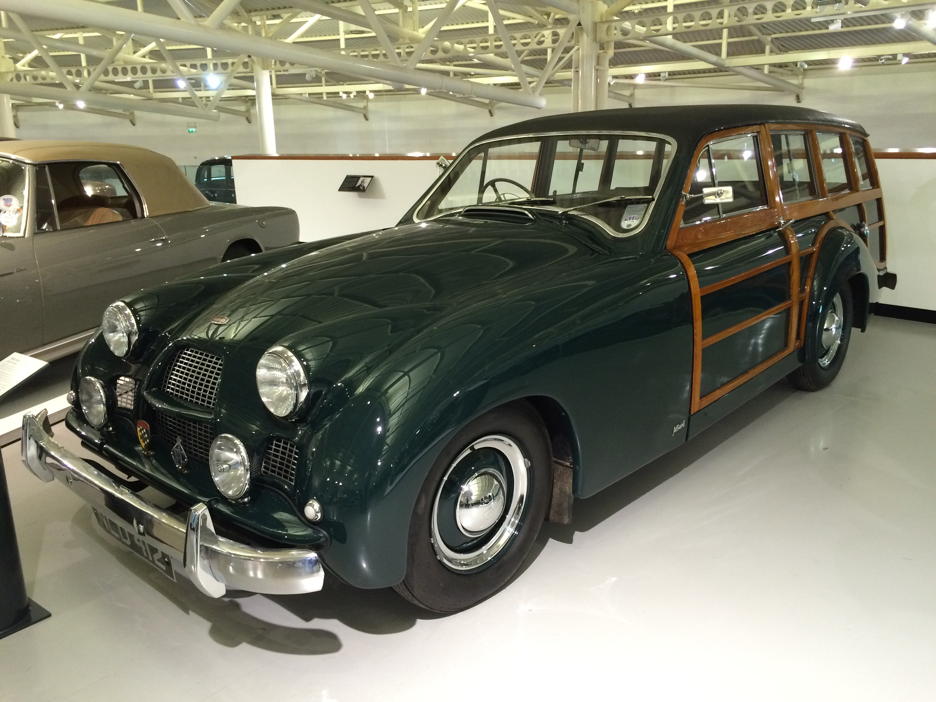 1953 Allard P2 Safari British Motor Museum 09-2016